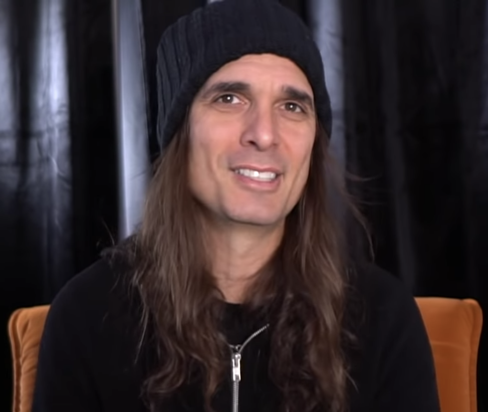 Kiko Loureiro in a self-filmed Q&A vlog, May 2020